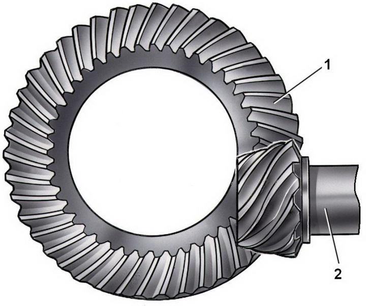 Hypoid gear